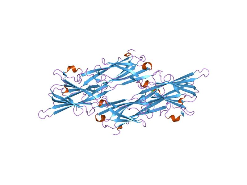 Cartoon representation of the molecular structure of protein registered with 1r17 code.